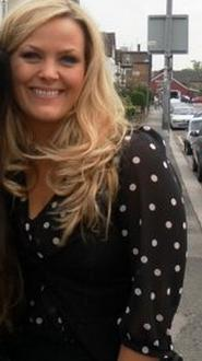 Jo Joyner